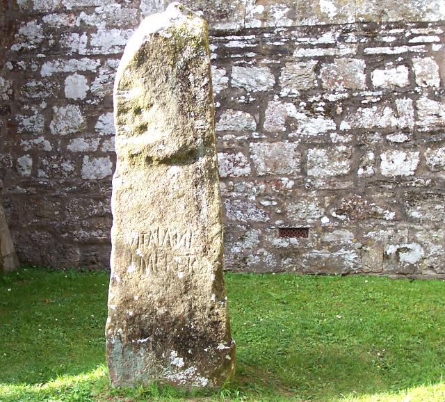 Vitalinus stone, Nevern. Was Nevern the final resting-place of Vortigern? Could this be his stone at the Church of St.Brynach?